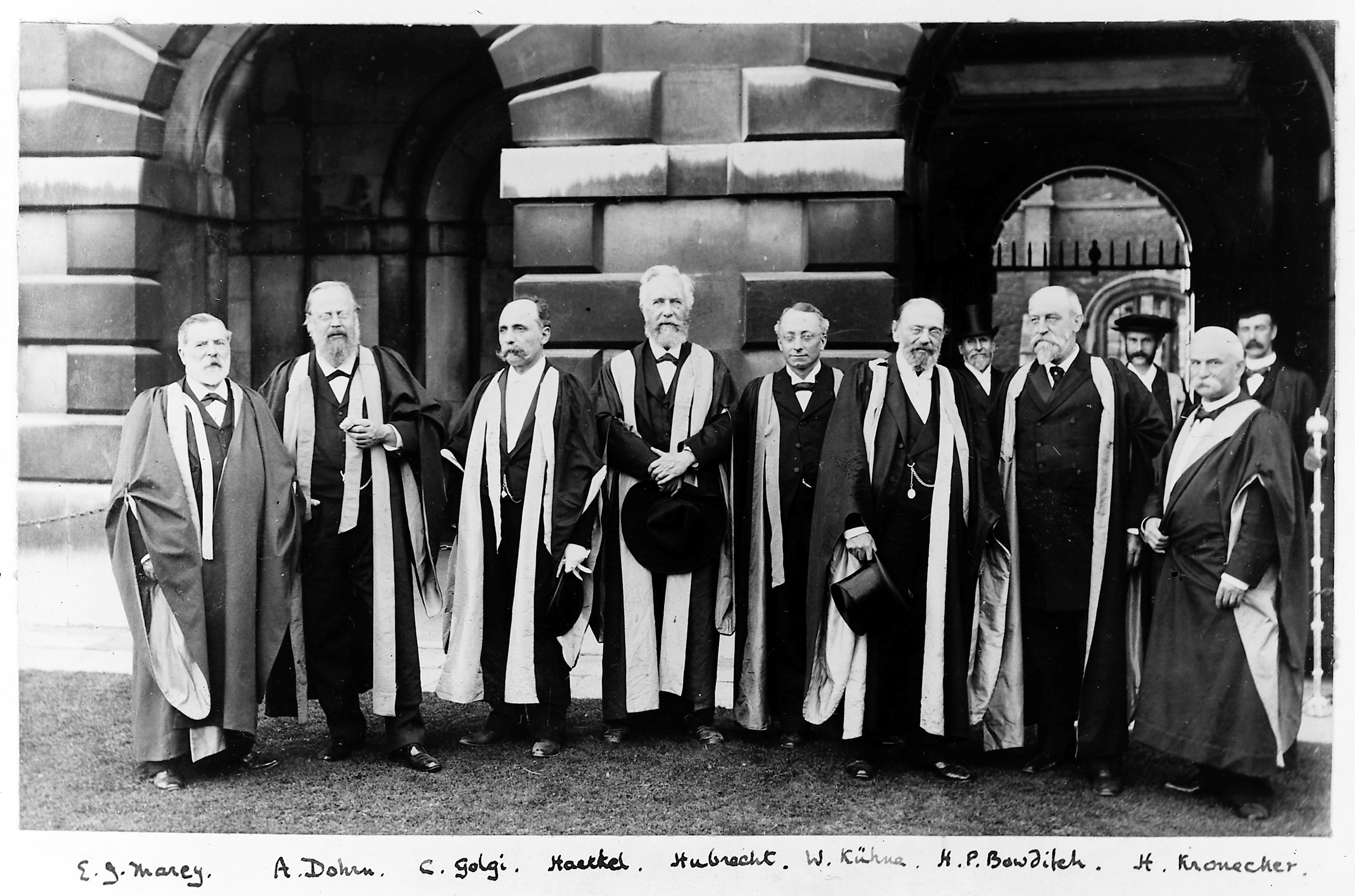 Group Portrait, from left to right: E.J. Marey, A. Dohrn, C. Golgi, E.H.P.A. Haeckel, A.A.W. Hubrecht, W.F. Kuehne, H.P. Bowditch, Hugo Kronecker and H. Kronecker. Taken outside the Old Schools, Cambridge. Iconographic Collections Keywords: Camillo Golgi; Ernst Heinrich Haeckel; Wilhelm Friedrich Kuehne; Etienne Jules Marey; Henry Pickering Bowditch; Hugo Kronecker; Ambrosius Arnold Willem Hubrecht; Anton Dohrn; F.J. Allen